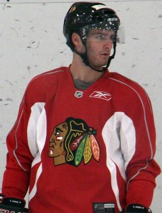 Brandon Saad on the ice at Blackhawks prospect camp, July 2011